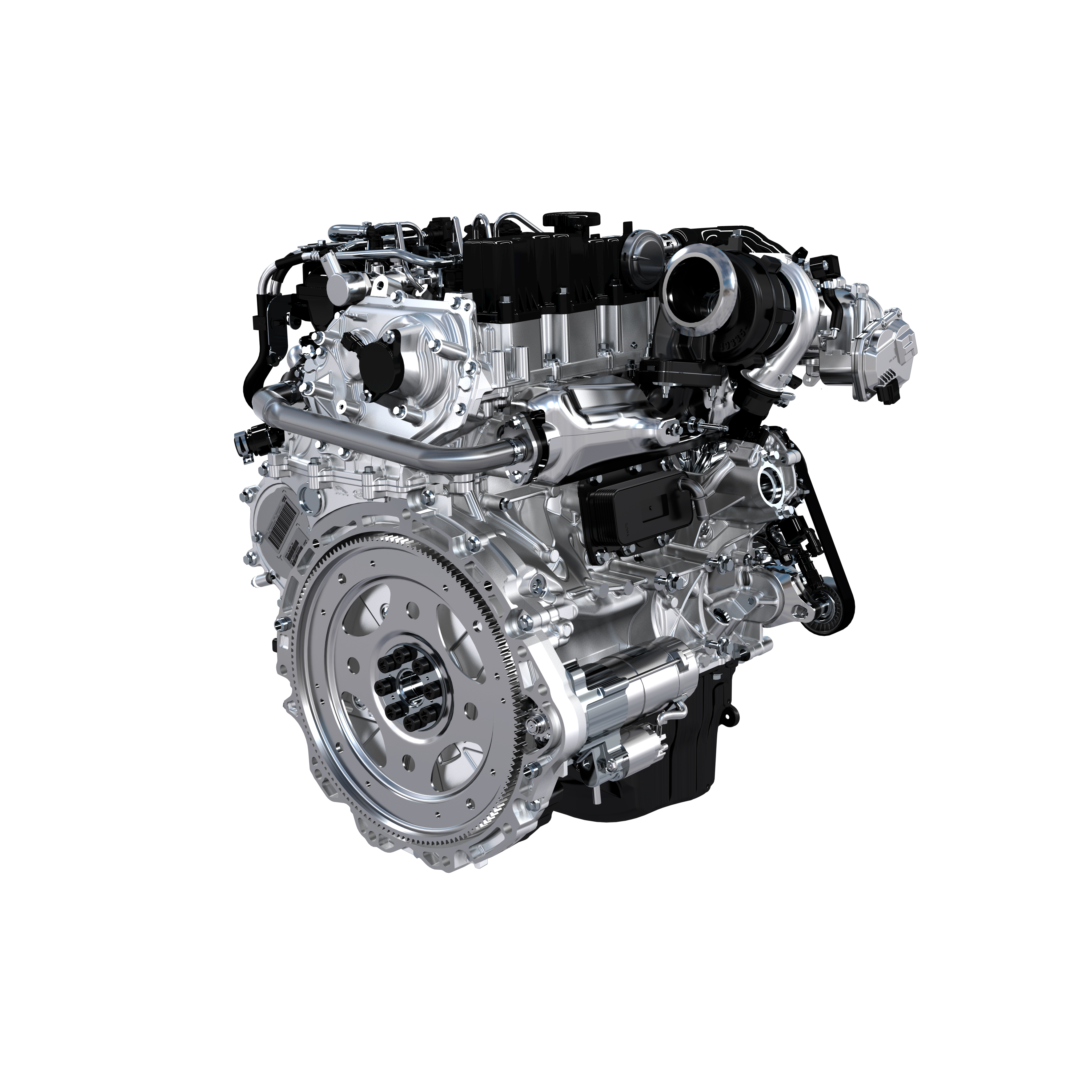 Jaguar XE Confirmed as New Name for Premium Sports Sedan with State-of-the-Art ‘Ingenium’ Engine Family and Advanced Aluminium Construction Technology